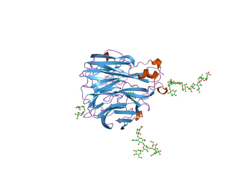 Cartoon representation of the molecular structure of protein registered with 2bat code.